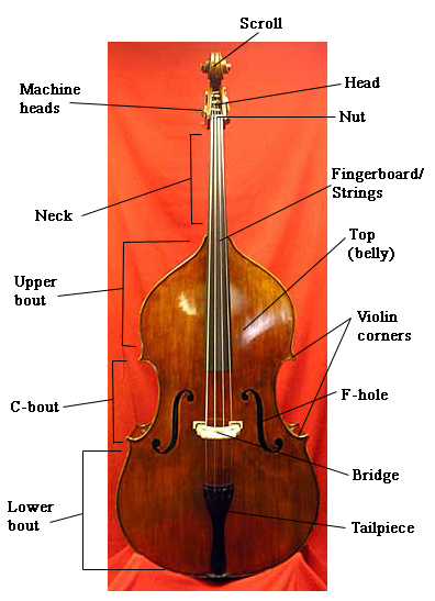 exterior features of a double bass, the text was added to Image:1337doublebass.jpg using Adobe Photoshop